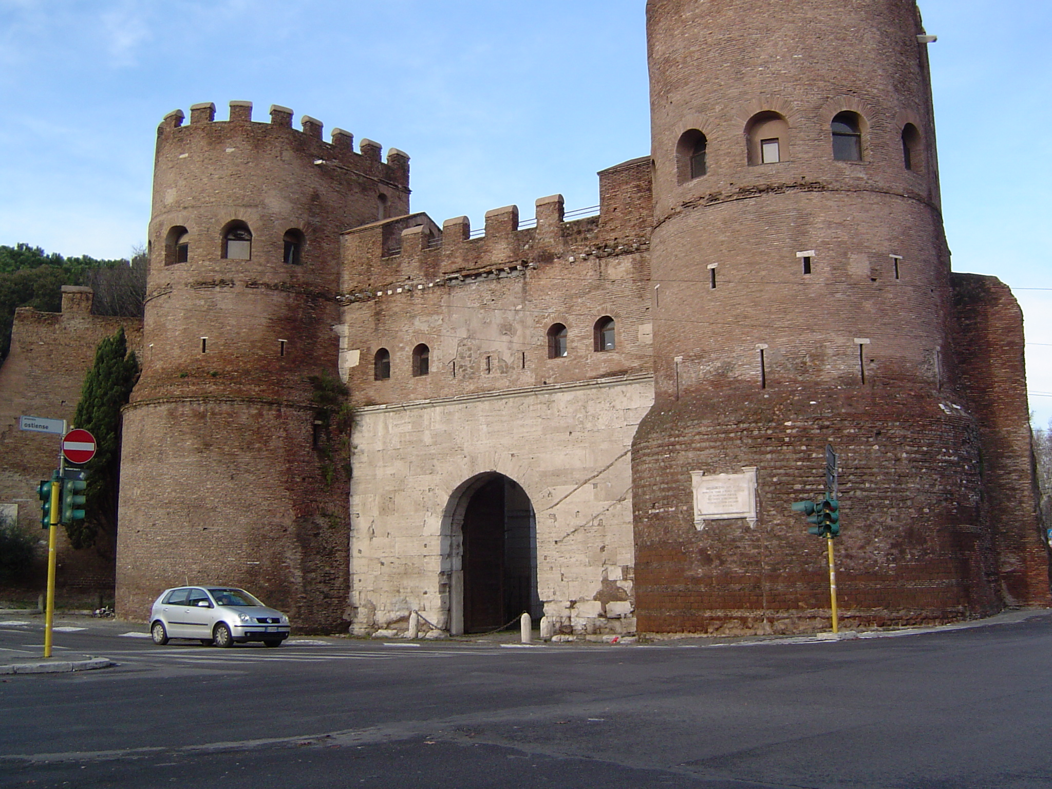 Porta San Paolo, Rome, Italy. Made by Joris van Rooden, the Netherlands on 03-01-2006